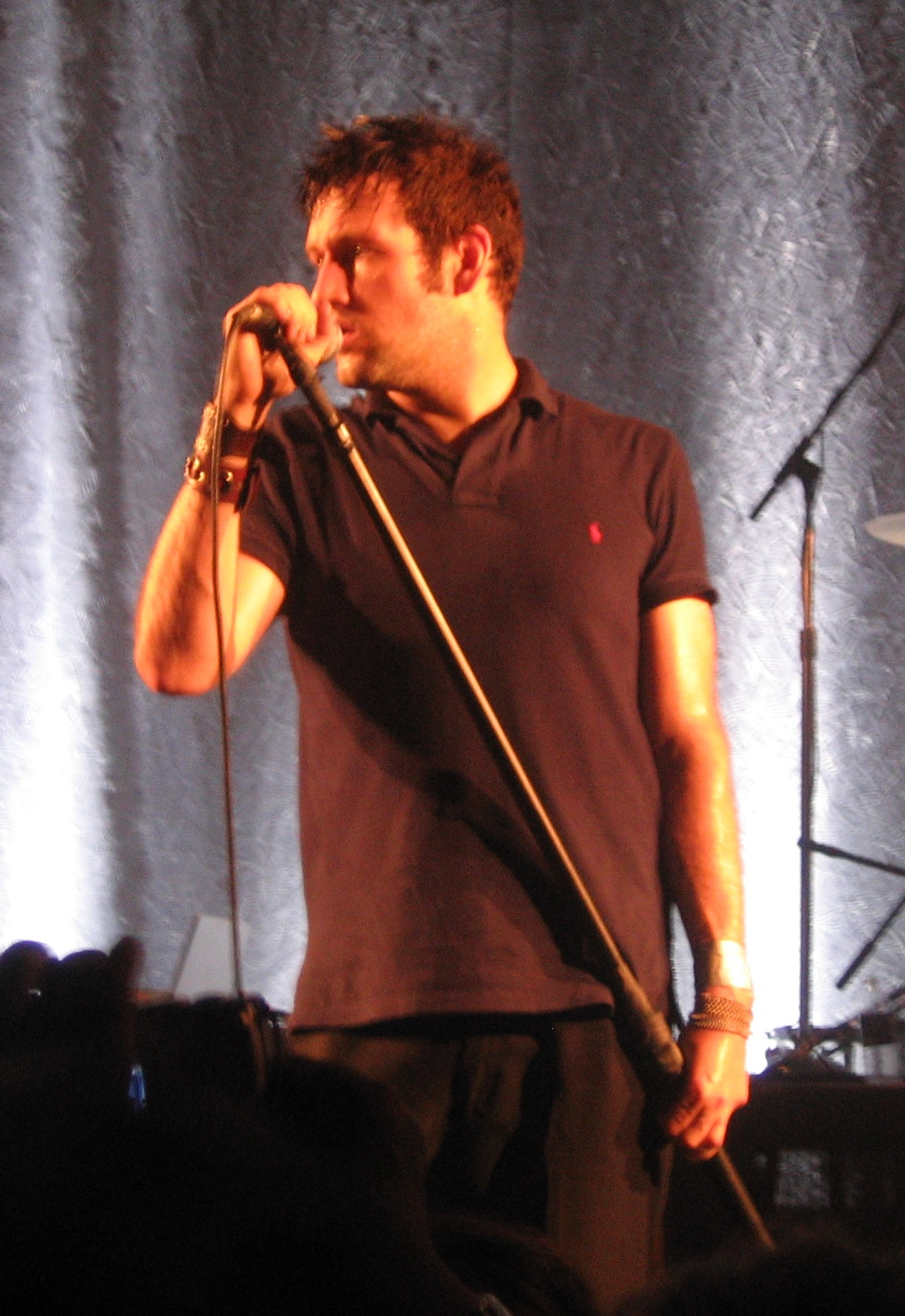 The Bravery's Sam Endicott performing with the band at the 9:30 Club in Washington, D.C. on August 1, 2005.